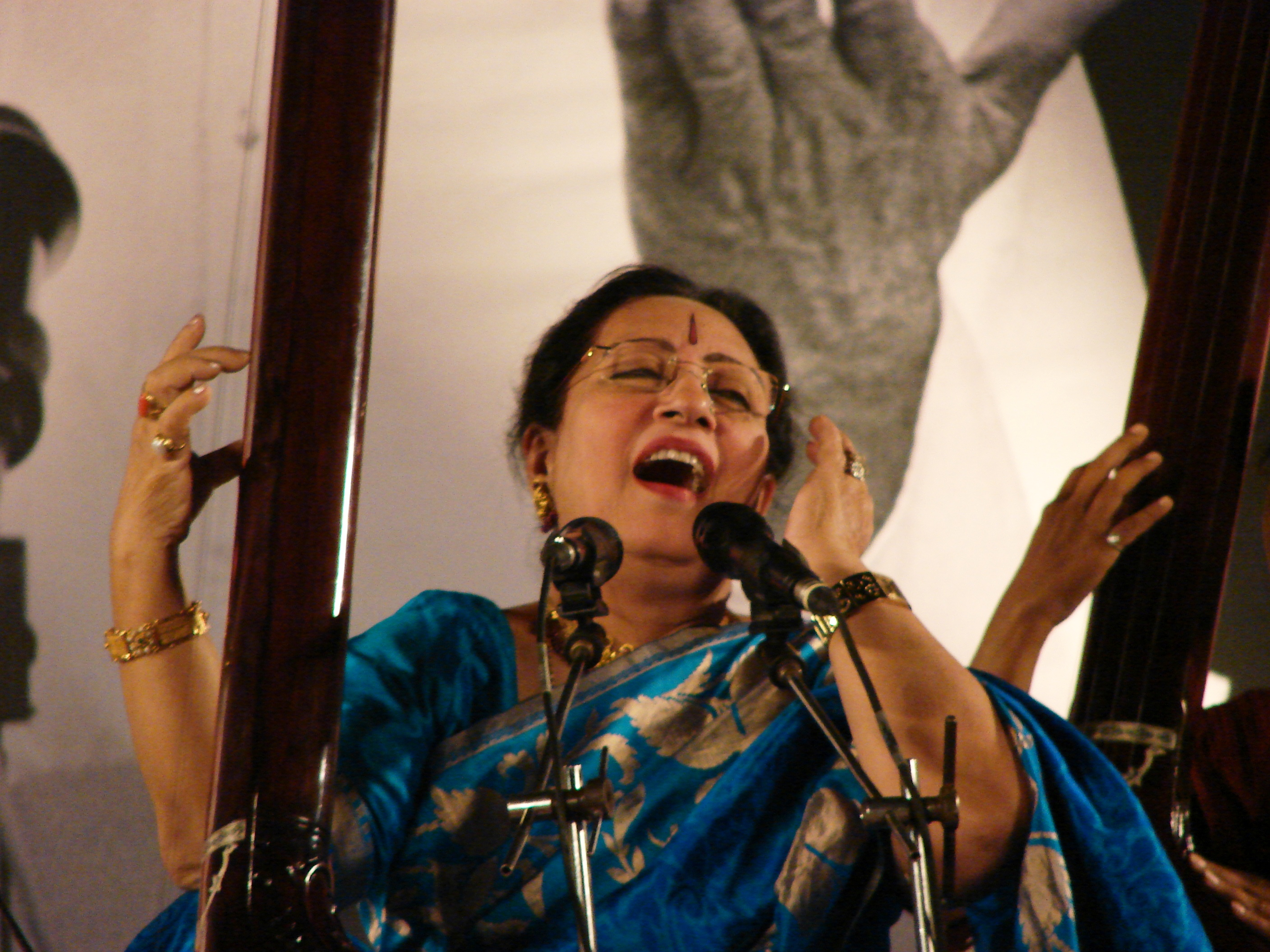 Parveen Sultana performing in Arghya 2011